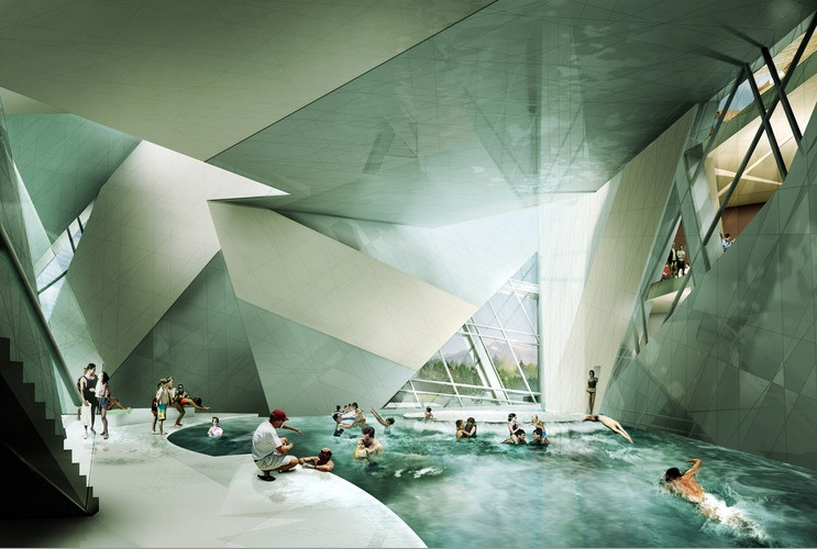 A rendering of the Westside Shopping and Leisure Center in Bern, Switzerland. The building was designed by Studio Daniel Libeskind.